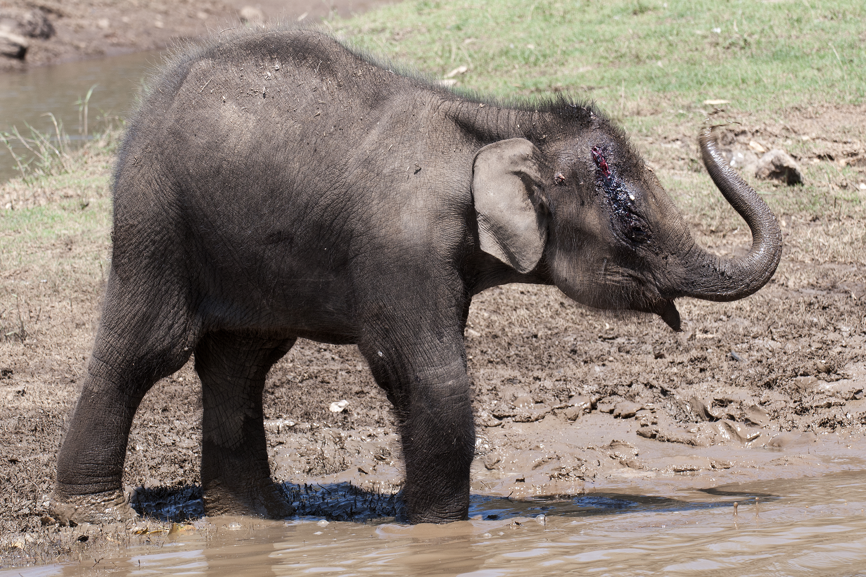 Injured and abandoned wild elephant calf in Nagarhole National Park, India. There were strong predator-like bite marks on the head indicating a possible attack by a large leopard or a tiger. The calf was rescued by the Karnataka Forest Department later that day.